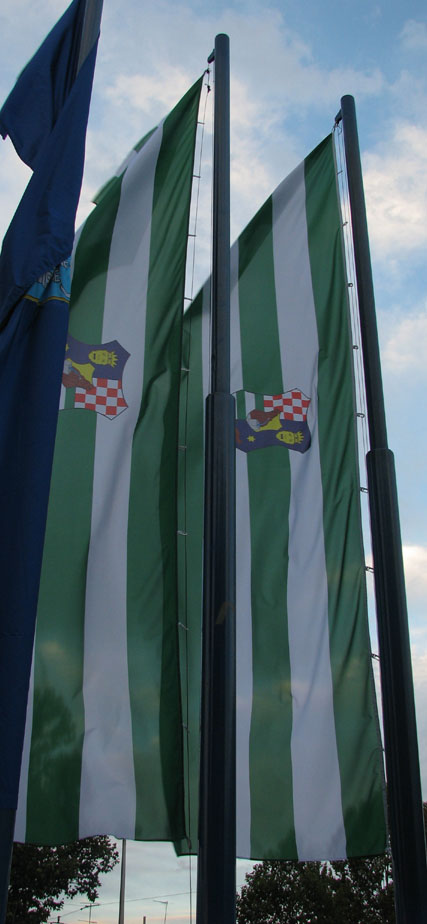 Flag of Zagreb County, Croatia